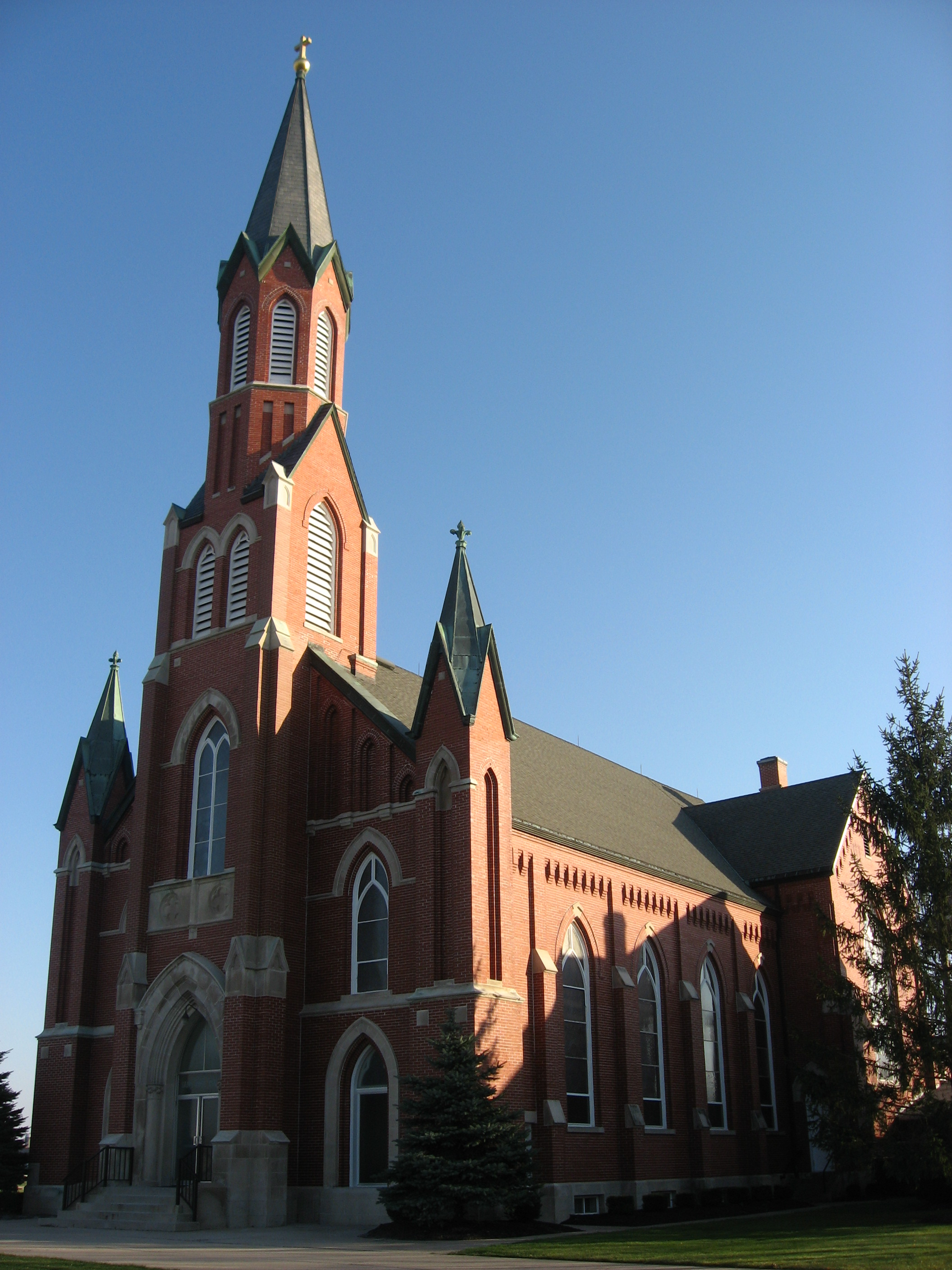 Front of St. Rose Roman Catholic Church, located along State Route 119 in Cassella, an unincorporated community in Marion Township, Mercer County, Ohio, United States. Built in 1892, the church, its rectory, and an associated school were listed together on the National Register of Historic Places as a part of the Cross-Tipped Churches of Ohio Thematic Resources.